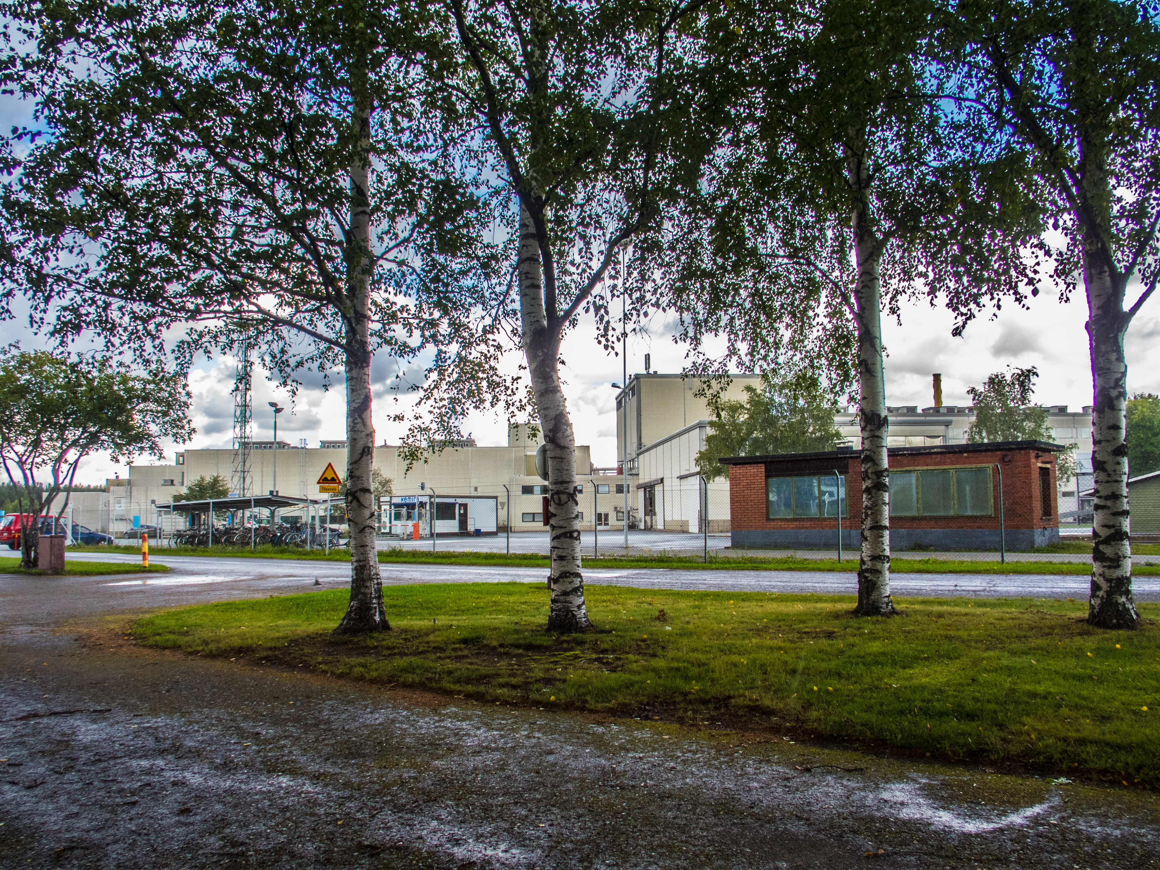 Former Finnish Chemicals, now Kemira Chemicals plant in Äetsä, Sastamala, Finland.